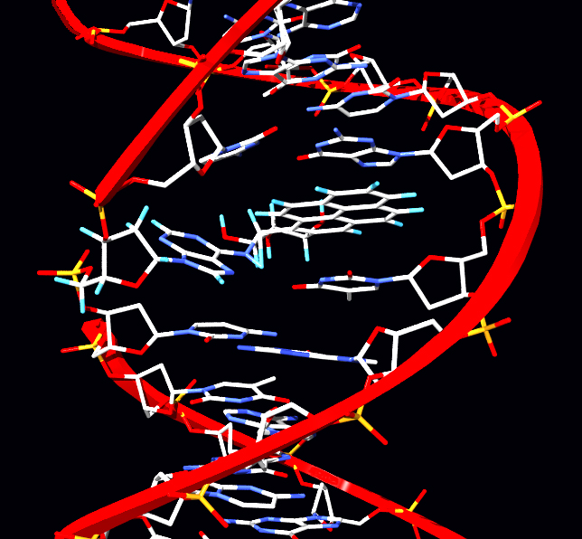 Solution structure of a trans-opened (10S)-dA adduct of +)-(7S,8R,9S,10R)-7,8-dihydroxy-9,10-epoxy-7,8,9,10-tetrahydrobenzo[a]pyrene in a DNA duplex. Produced from PDB 1JDG